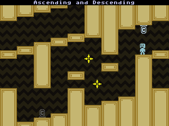 VVVVVV screenshot. Released in 2010, the game was developed by Terry Cavanagh.